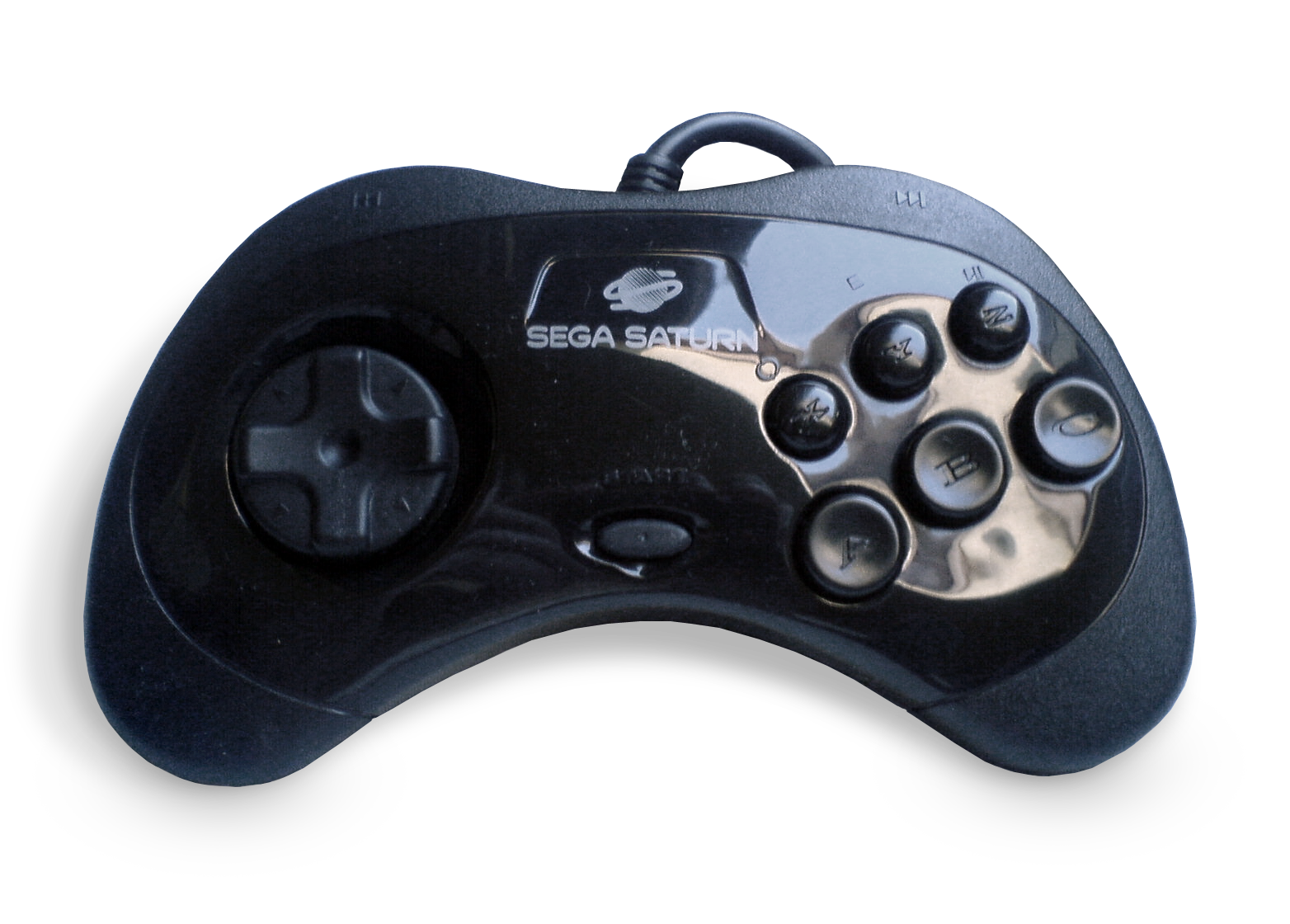 Sega Saturn controller as sold in Japan and later in North America and Europe